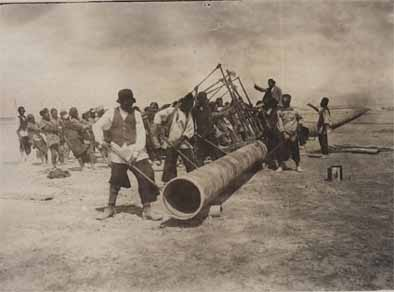 constructing oil transport Pipeline of Masjed Soleyman Well by Bakhtiari Workers.